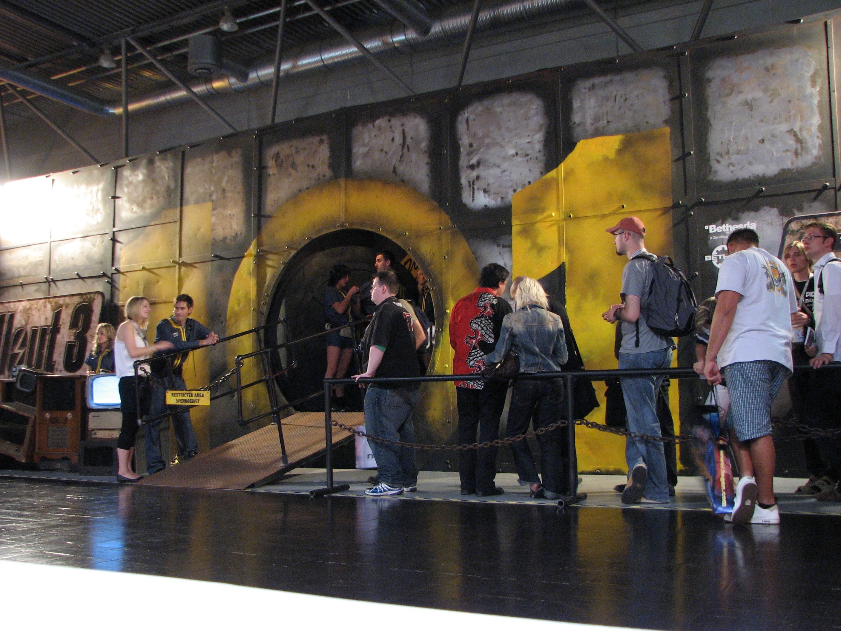 Taken on August 20, 2008 Canon PowerShot S3 IS